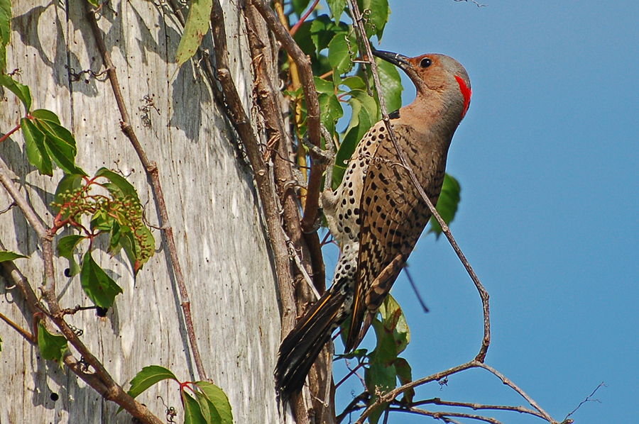 Red shafted sub species of Northern Flicker (Colaptes auratus) dt. Goldspecht